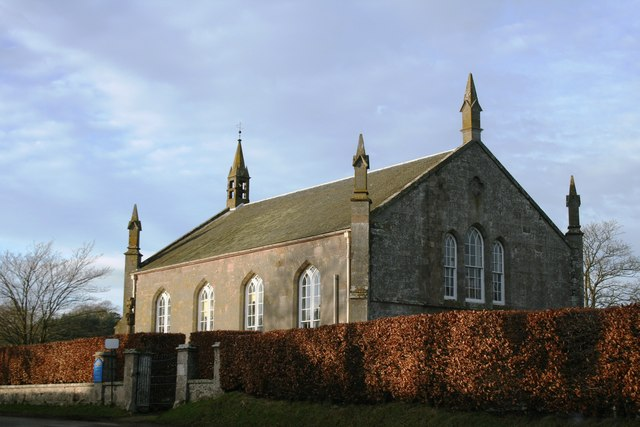 Glenbervie Church Glenbervie Church located on the edge of the village.